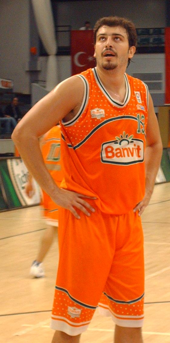 Umut Yenice (Banvit Basketbol Kulübü) at Licher Premium Cup 2008, Gießen, Germany check usage